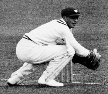 Joe Hardstaff junior batting for England during his innings of 94 in the 2nd Test match between England and All India at Old Trafford in Manchester, 26th July 1936. The Indian wicketkeeper is Khershed Meherhomji.